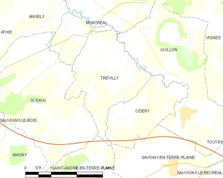 Map of French municipality Trévilly